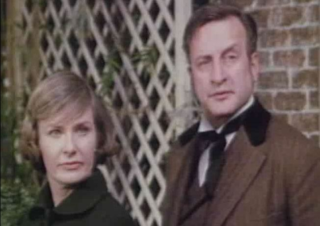 Screenshot of Joanne Woodward and George C. Scott from the trailer for the film They Might Be Giants